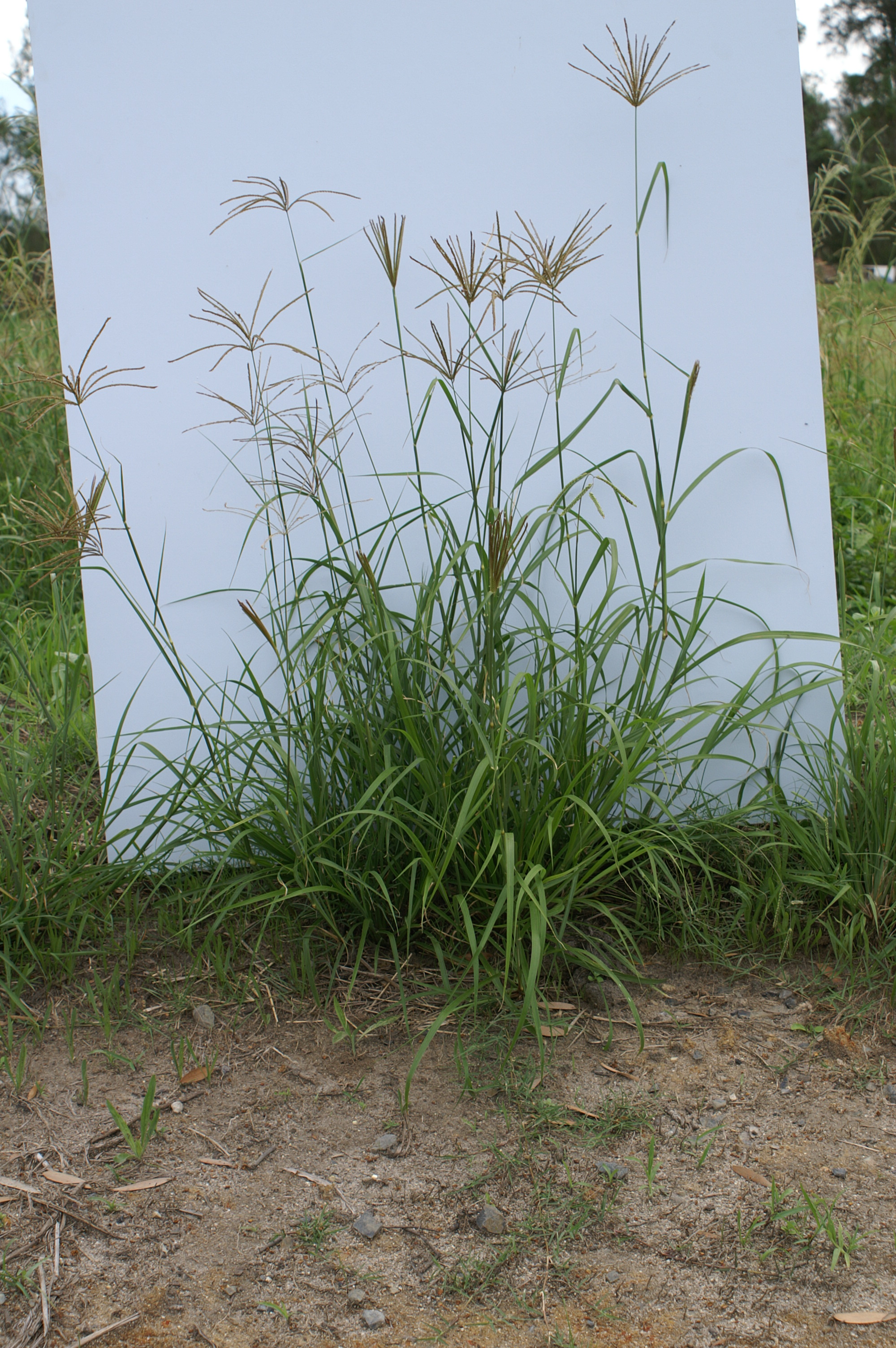 Erect grass to 1.2 m tall with tufts joined by thick stolons. Stem bases are flattened.